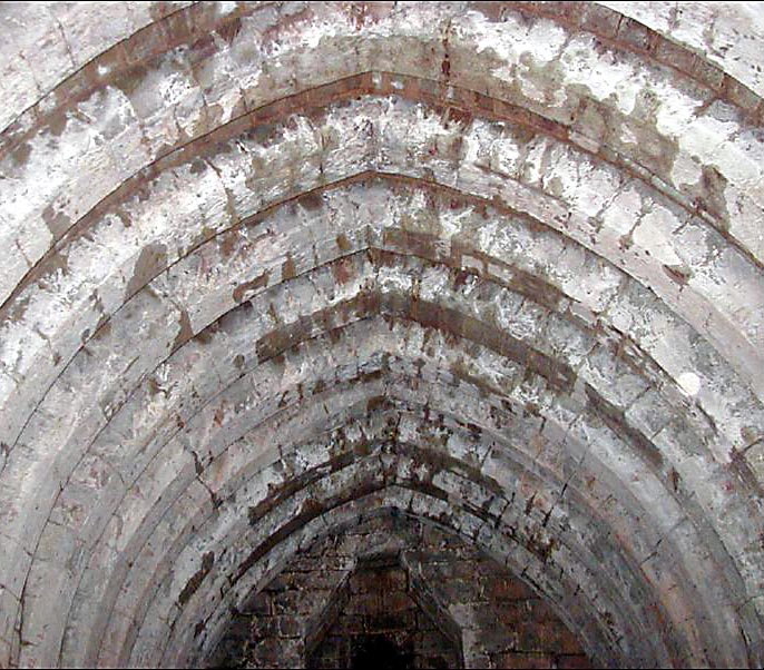 Gothic Vaulting Goblin Ha'